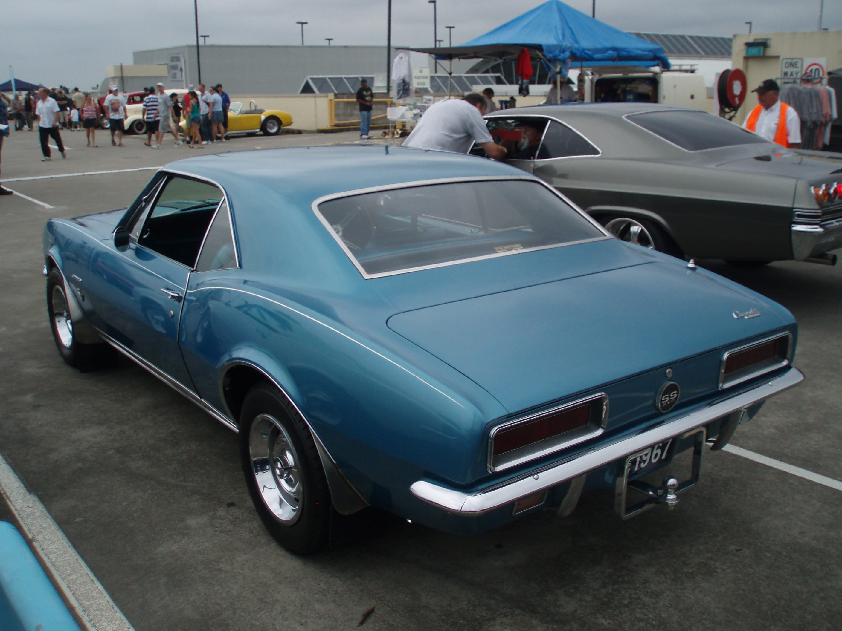 1967 Chevrolet Camaro RS/SS coupe. Taken at the 2011 New South Wales All American Day, held at Castle Towers Shopping Centre, Castle Hill, Sydney.